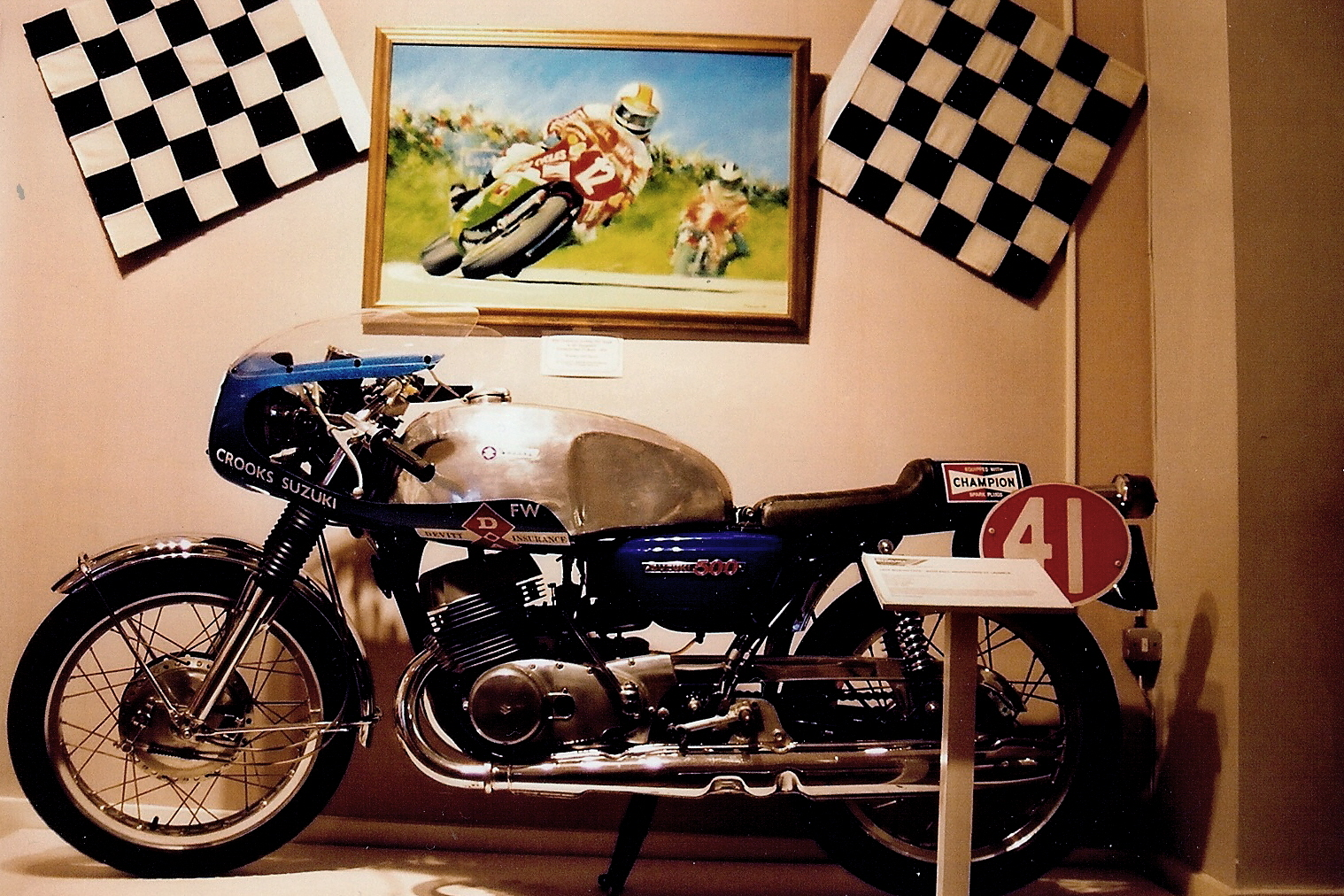 Douglas - Manx Museum - 1970 Suzuki T500 With full production TT laurels. Engine: air-cooled, two-stroke, parallel twin; Capacity: 392cc; Transmission: 5 gears; Power: 48bhp @ 7500 RPM; Top Speed: 117mph; Dry Weight: 350#; Owner: Crooks Suzuki.